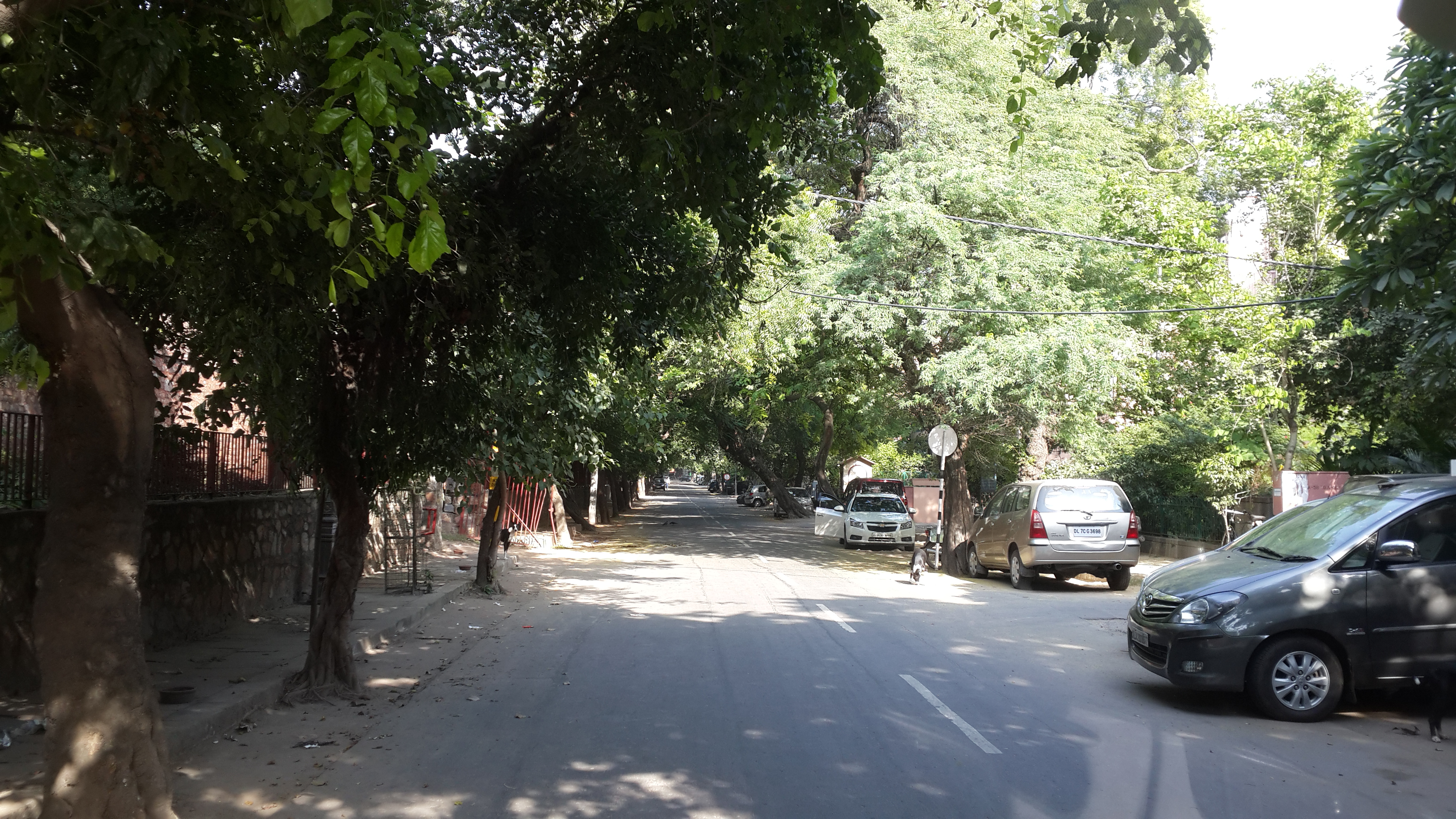 Photograph of a street in Nizamuddin East, New Delhi.